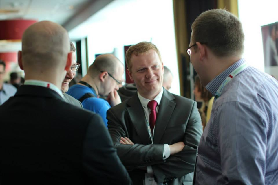 Foyer discussions during a coffee break - Open Source Day 2014 Conference in Warsaw